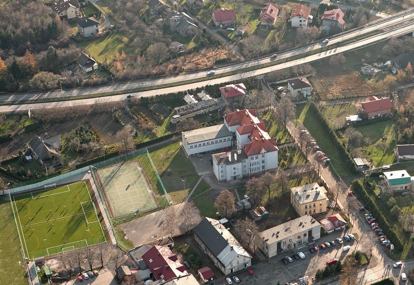 Primary school in Komorowice, district of Bielsko-Biała, Poland